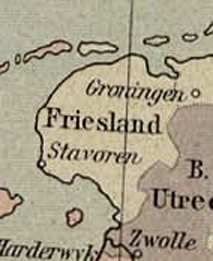 This map come from the map collection of University of Texas, specifically from: Central Europe in 1477, from Historical Atlas by William R. Shepherd, 1926.